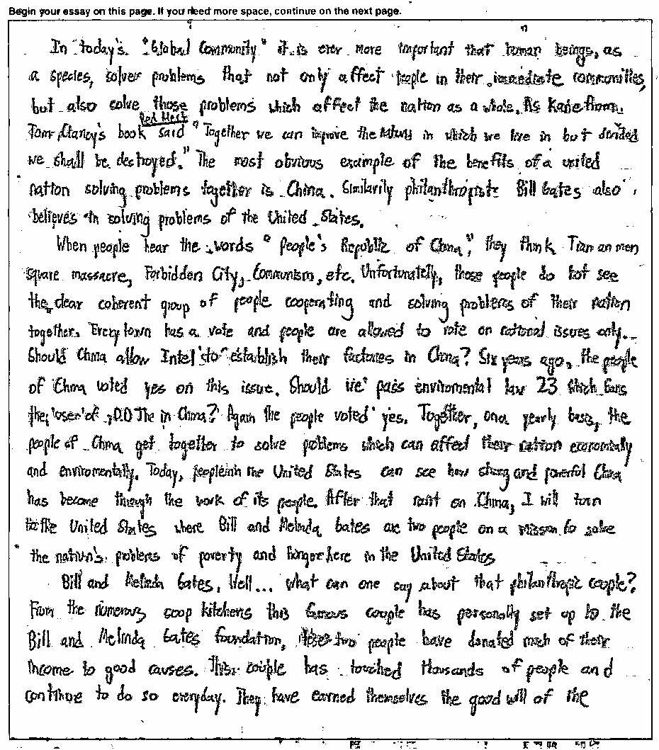 Original description in English Wikipedia: " I wrote this essay on the January 2007 SAT reasoning test. This is Page 1. This essay scored a 10/12. Page two is found Chinaman88 02:07, 25 March 2007 (UTC) This was the essay prompt provided by the Collegeboard/ETS on the SAT reasoning test for this essay. Think carefully about the issue presented in the following excerpt and the assignment below: People are happy only when they have their minds fixed on some goal other than their own happiness. Happiness comes when people focus instead on the happiness of others, on the improvement of humanity, on some course of action that is followed not as a means to anything else but as an end in itself. Aiming at something other than their own happiness, they find happiness along the way. The only way to be happy is to pursue some goal external to your own happiness. Adapted from John Stuart Mill, Autobiography Assignment: Are people more likely to be happy if they focus on goals other than their own happiness? Plan and write an essay in which you develop your point of view on this issue. Support your position with reasoning and examples taken from your reading, studies, experience, or observations. " Second page: File:EssayImageAction2.png